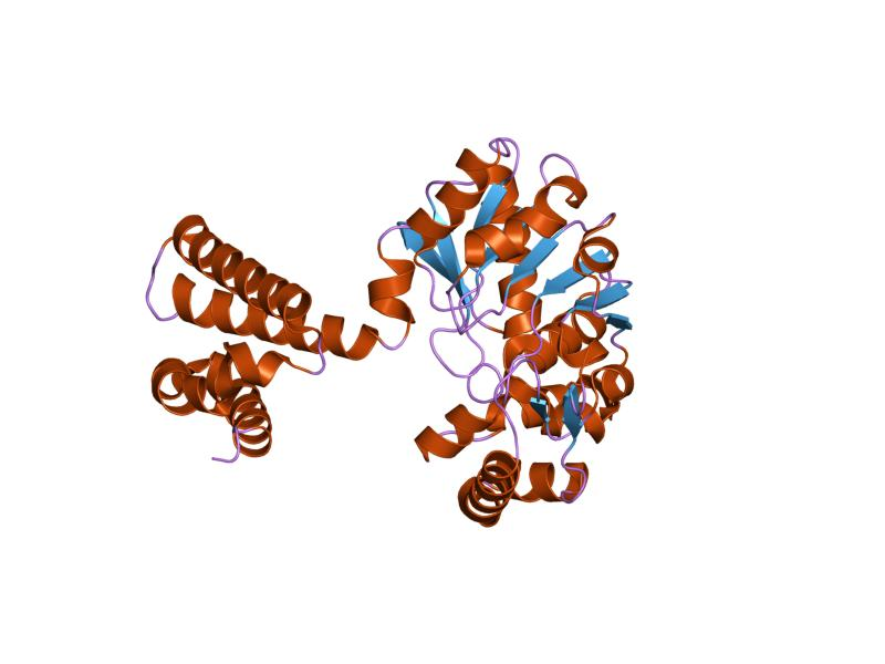 Cartoon representation of the molecular structure of protein registered with 2b0j code.